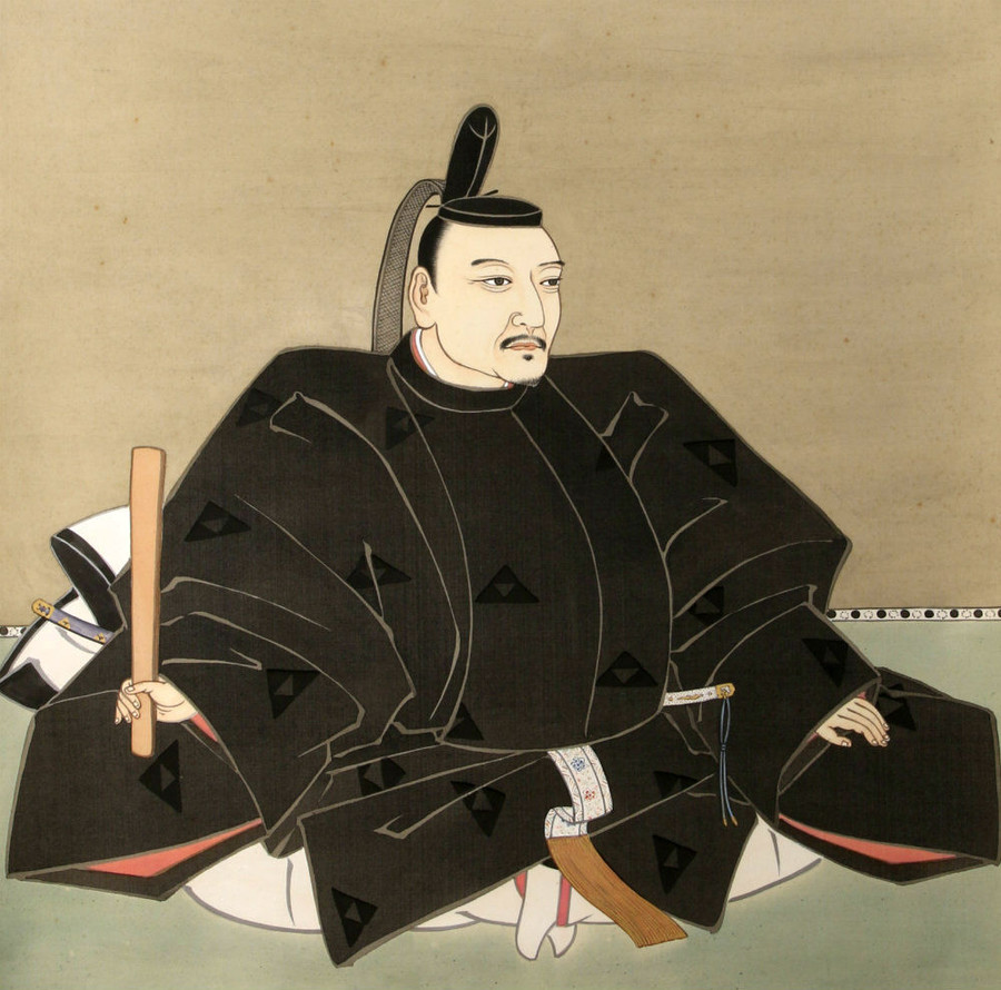 Hōjō Ujimasa (1538 - August 10, 1590) was the fourth head of the late Hōjō clan, and daimyo of Odawara.